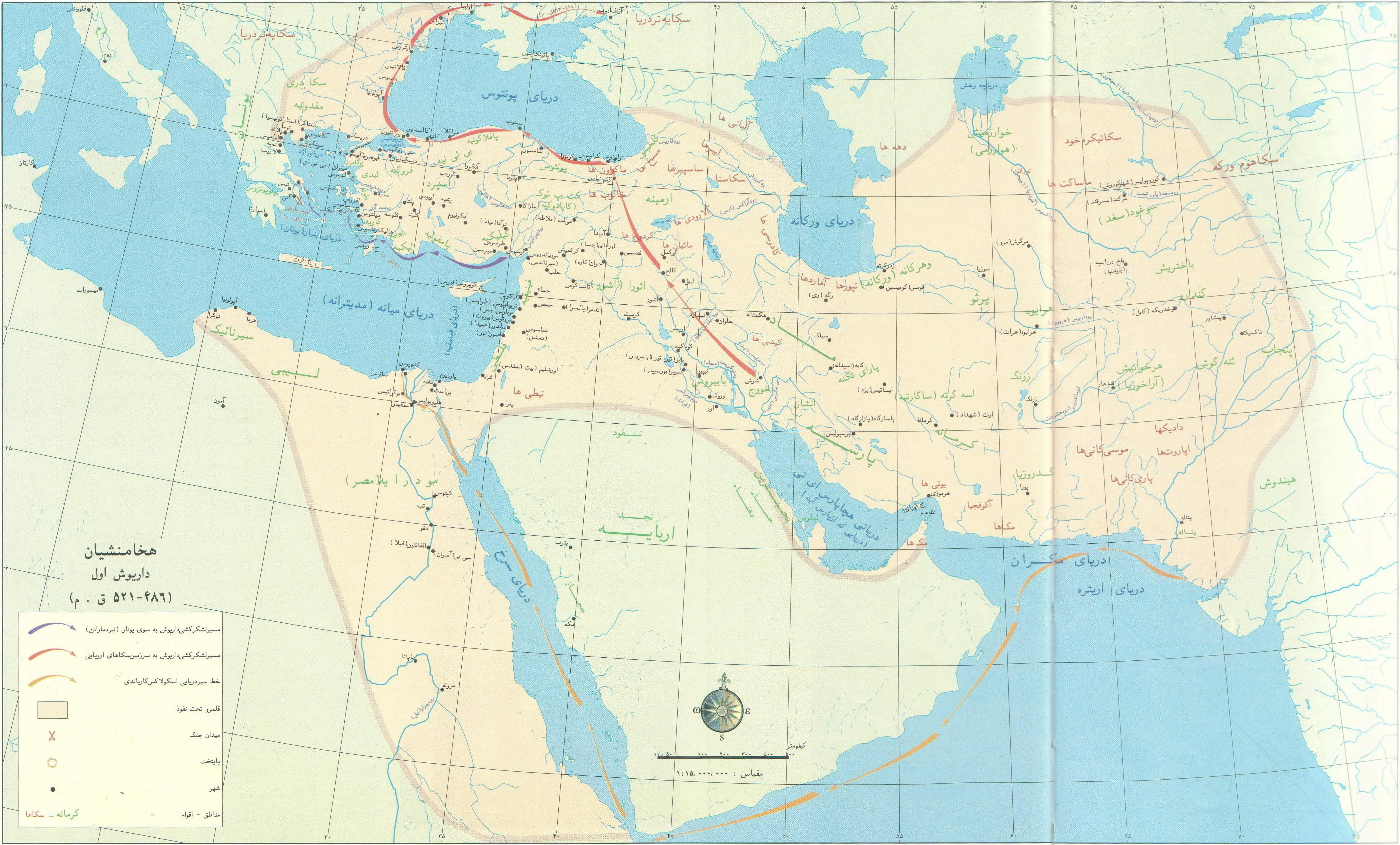 map of Iran achaemenids (darius the great)